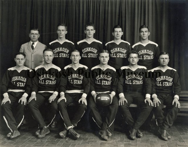 Original team started in 1929